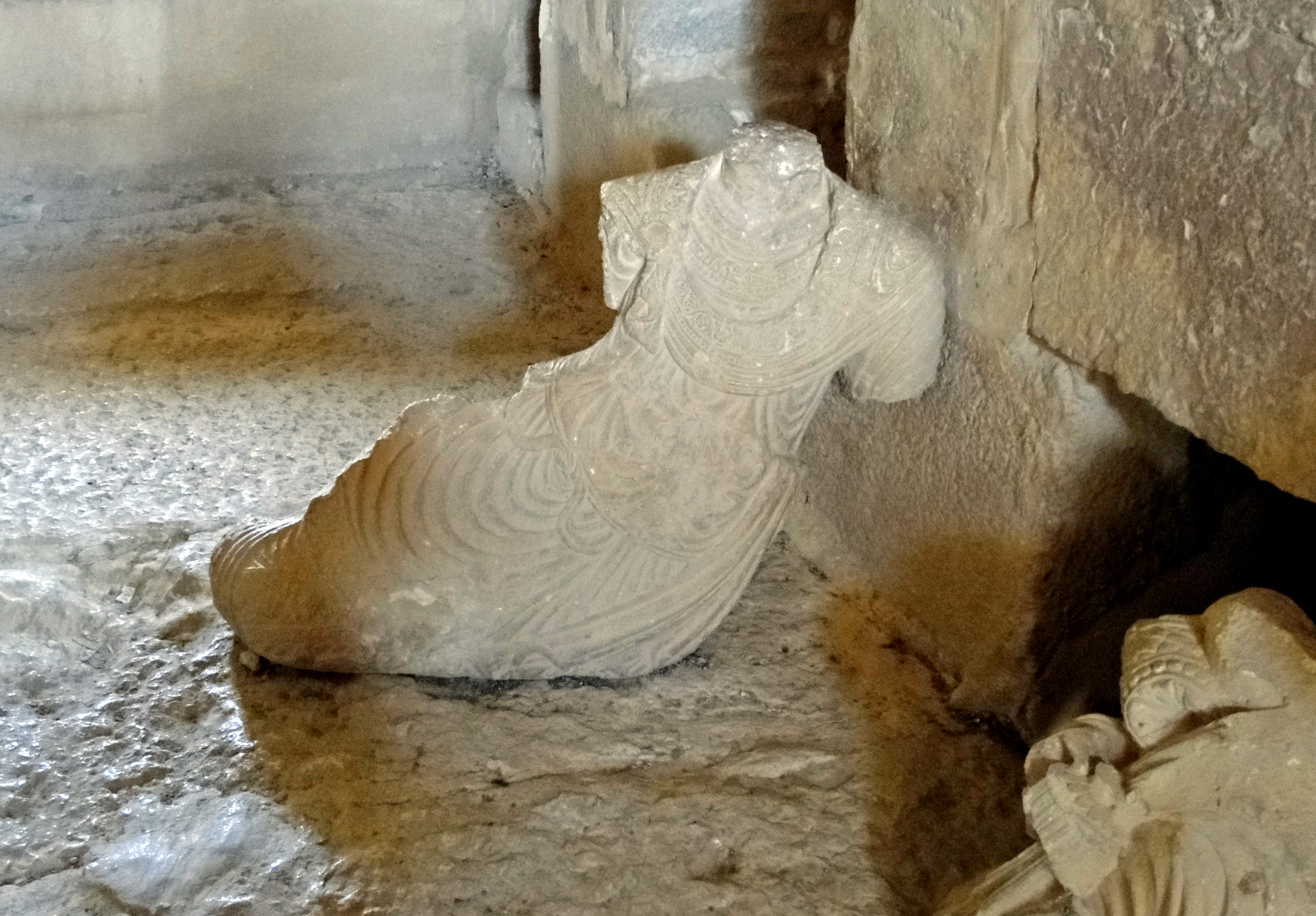 A statue in the Elahbel tower tomb, Palmyra, Syria